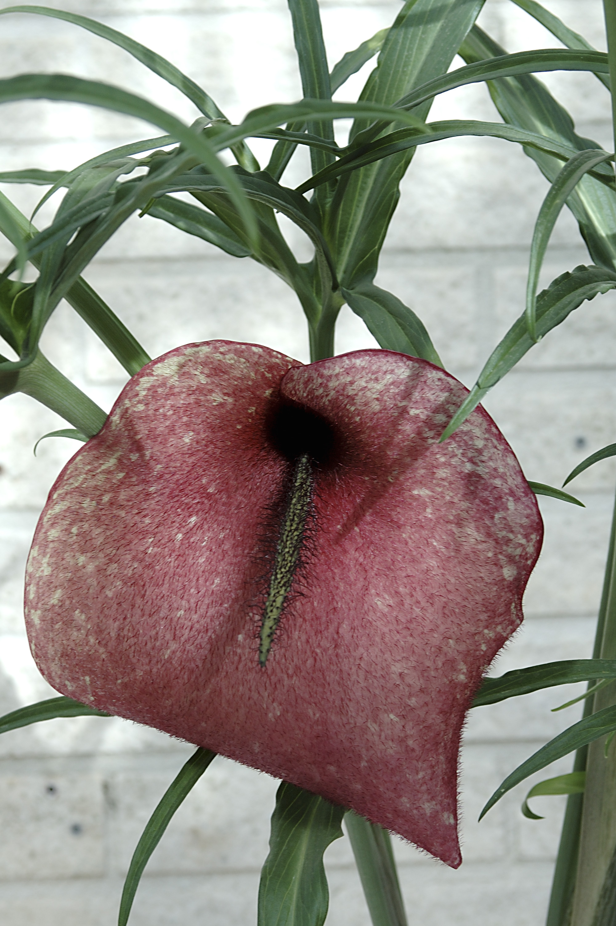 Dracunculus muscivorus